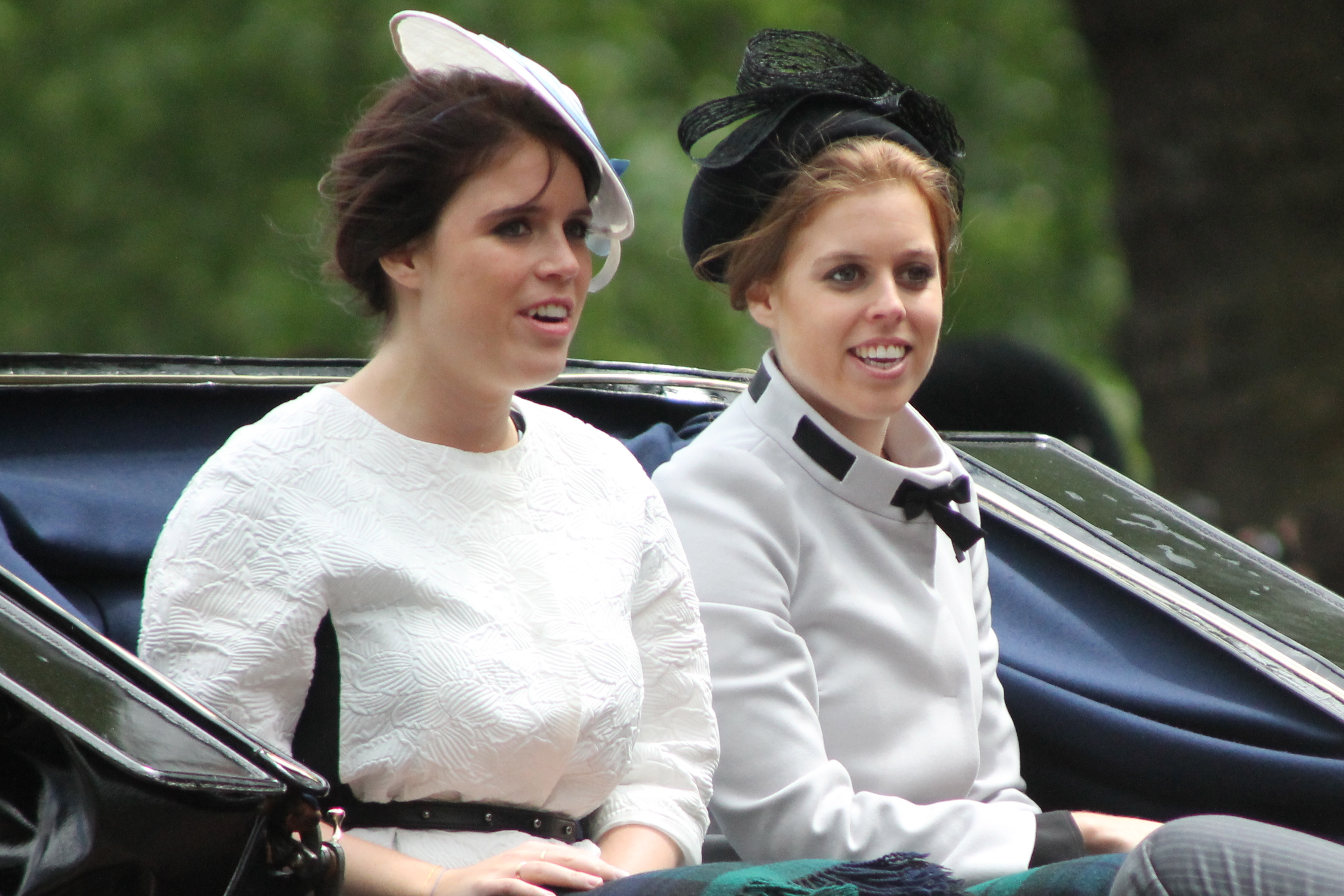 Princesses Beatrice and Eugenie, Trooping the Colour June 2013